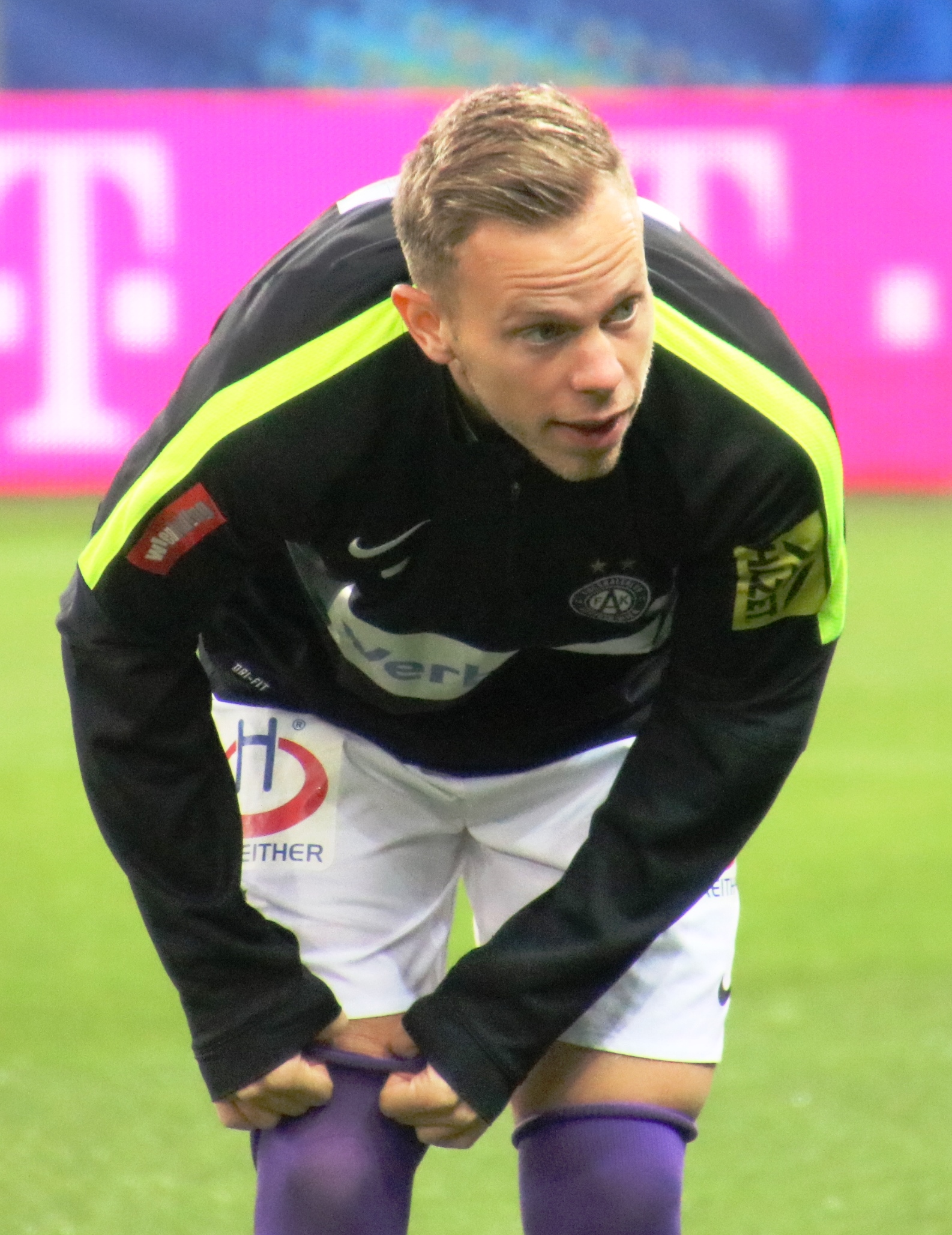 Cup semifinal match